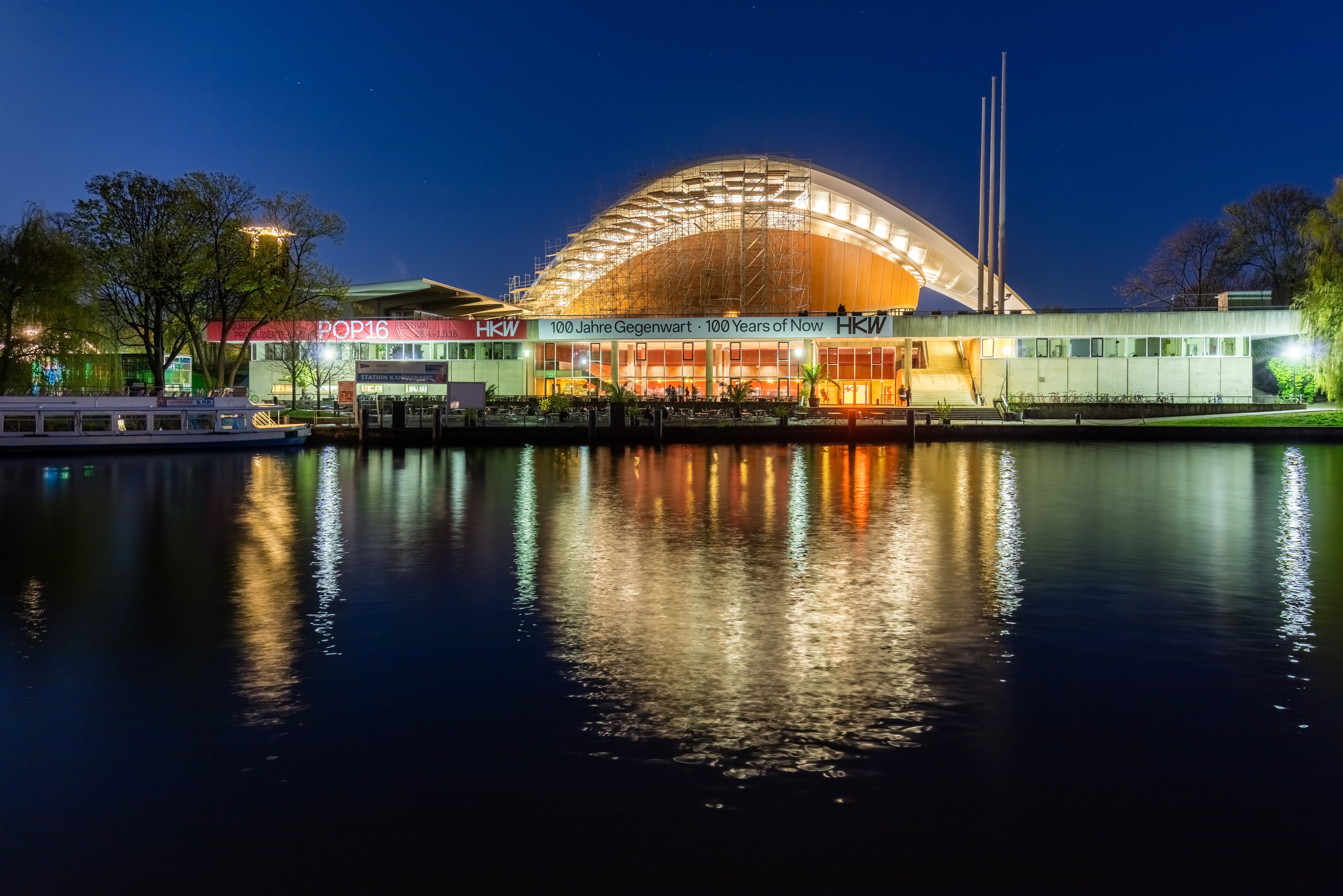 House of the Cultures, Berlin, Germany